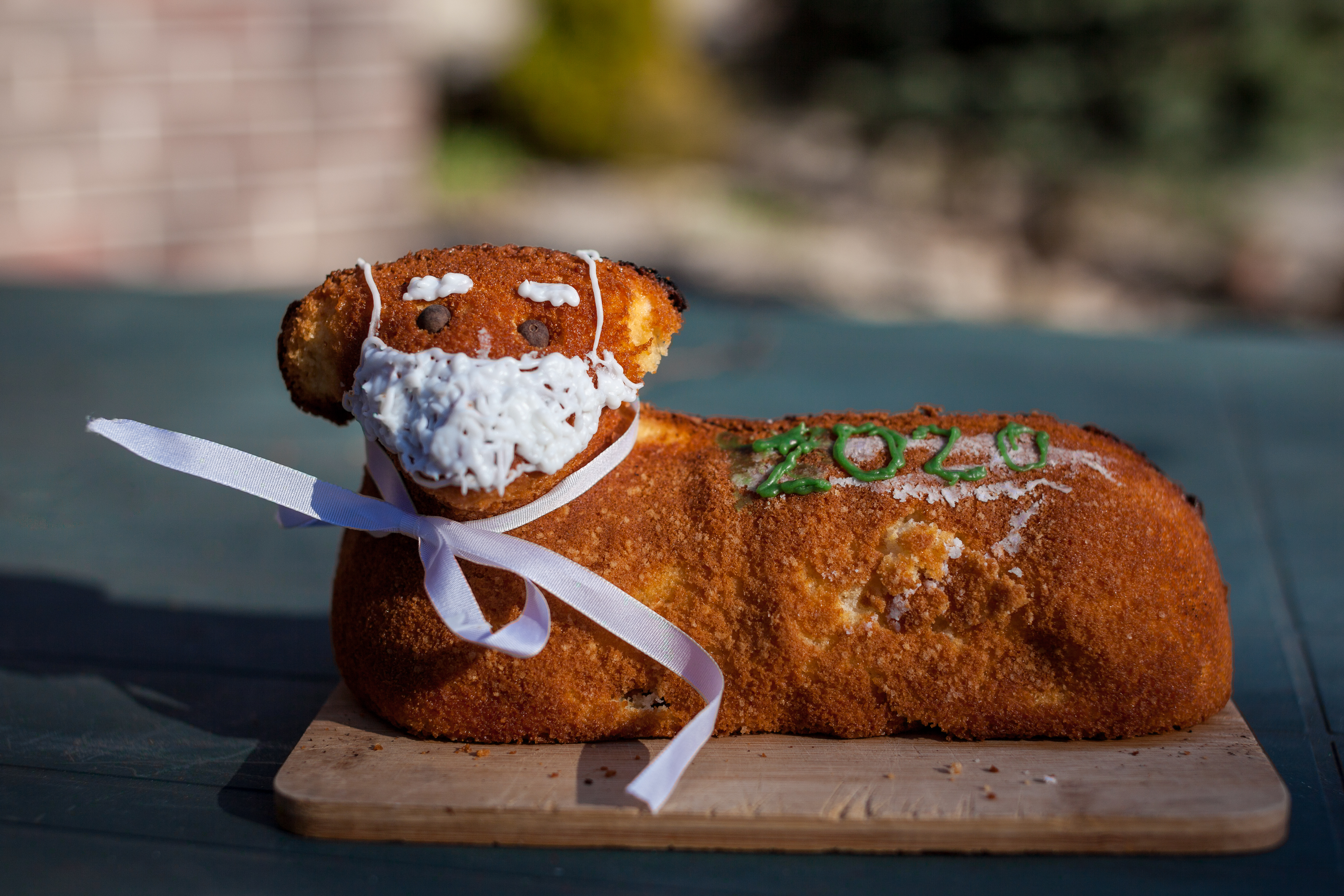 Easter lamb (Czech traditional cake) with a protective mask from sugar referring to the COVID-19 pandemic